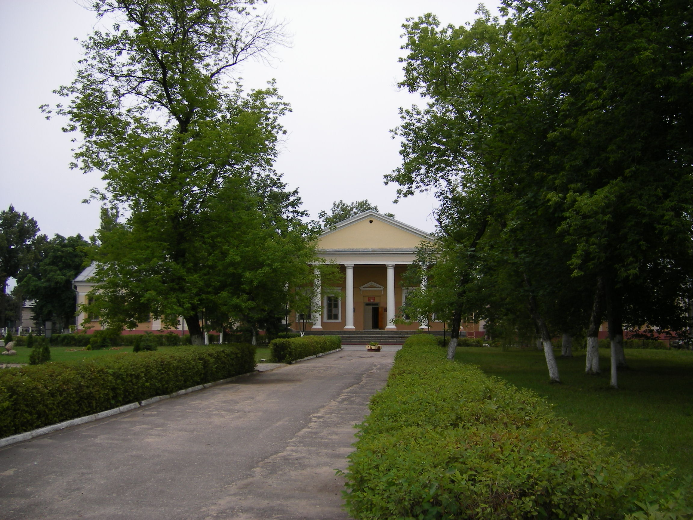 Pastavy - Palace of Tyzenhaus family.